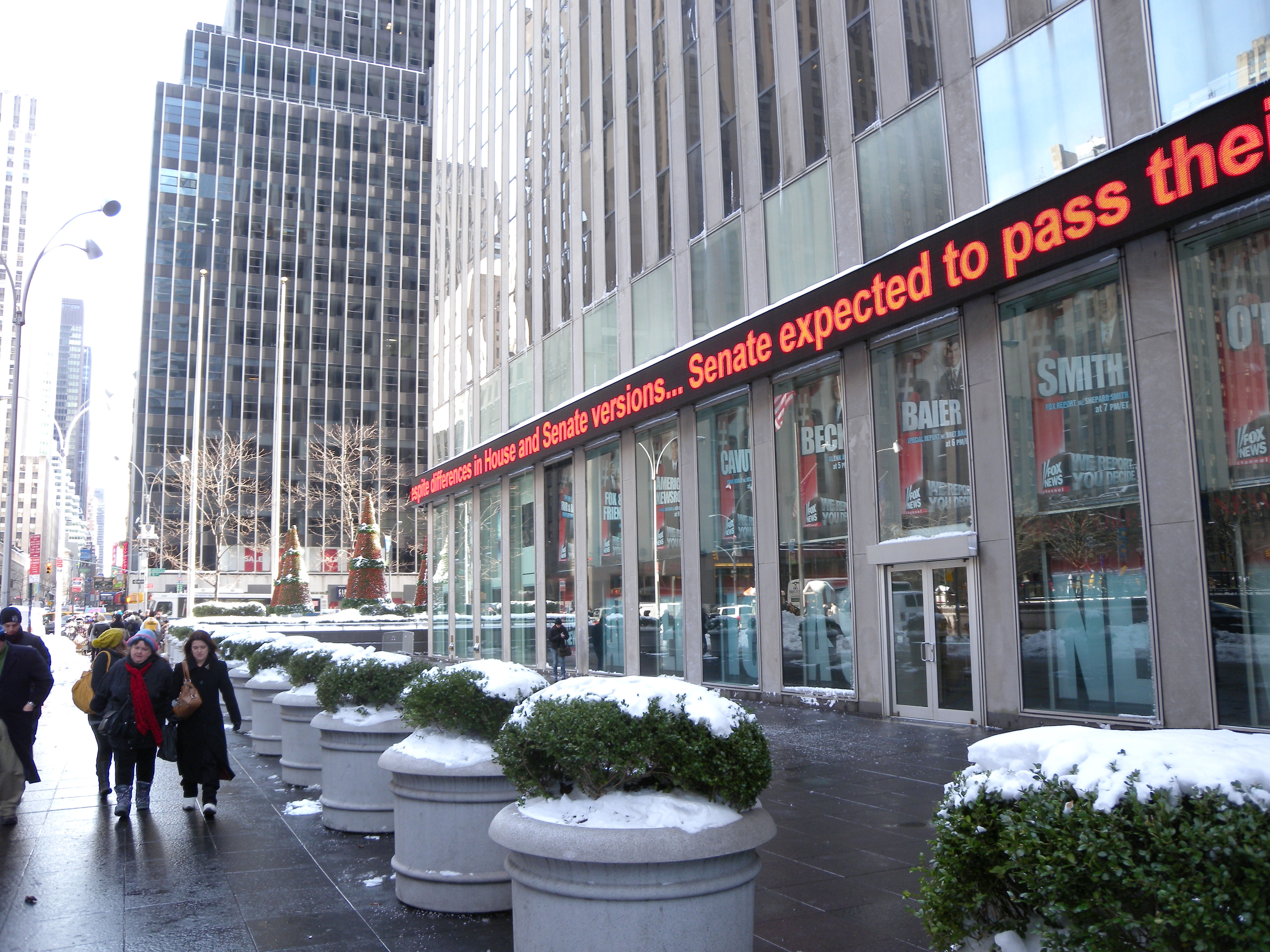 Looking east towards 6th Avenue along north (48th Street) side of Fox News building on a snowy afternoon.